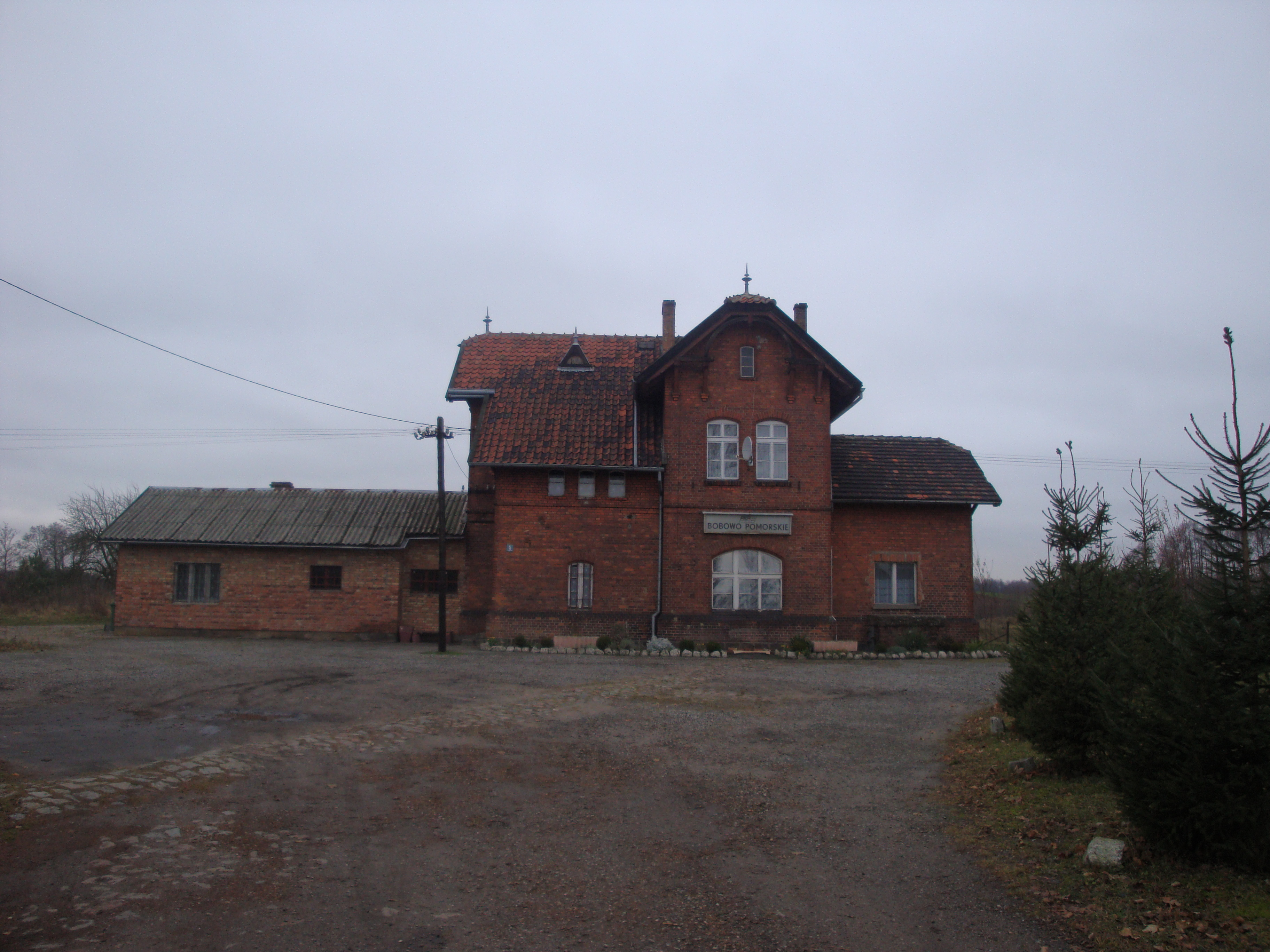 Diused railway station Bobowo Pomorskie, Poland